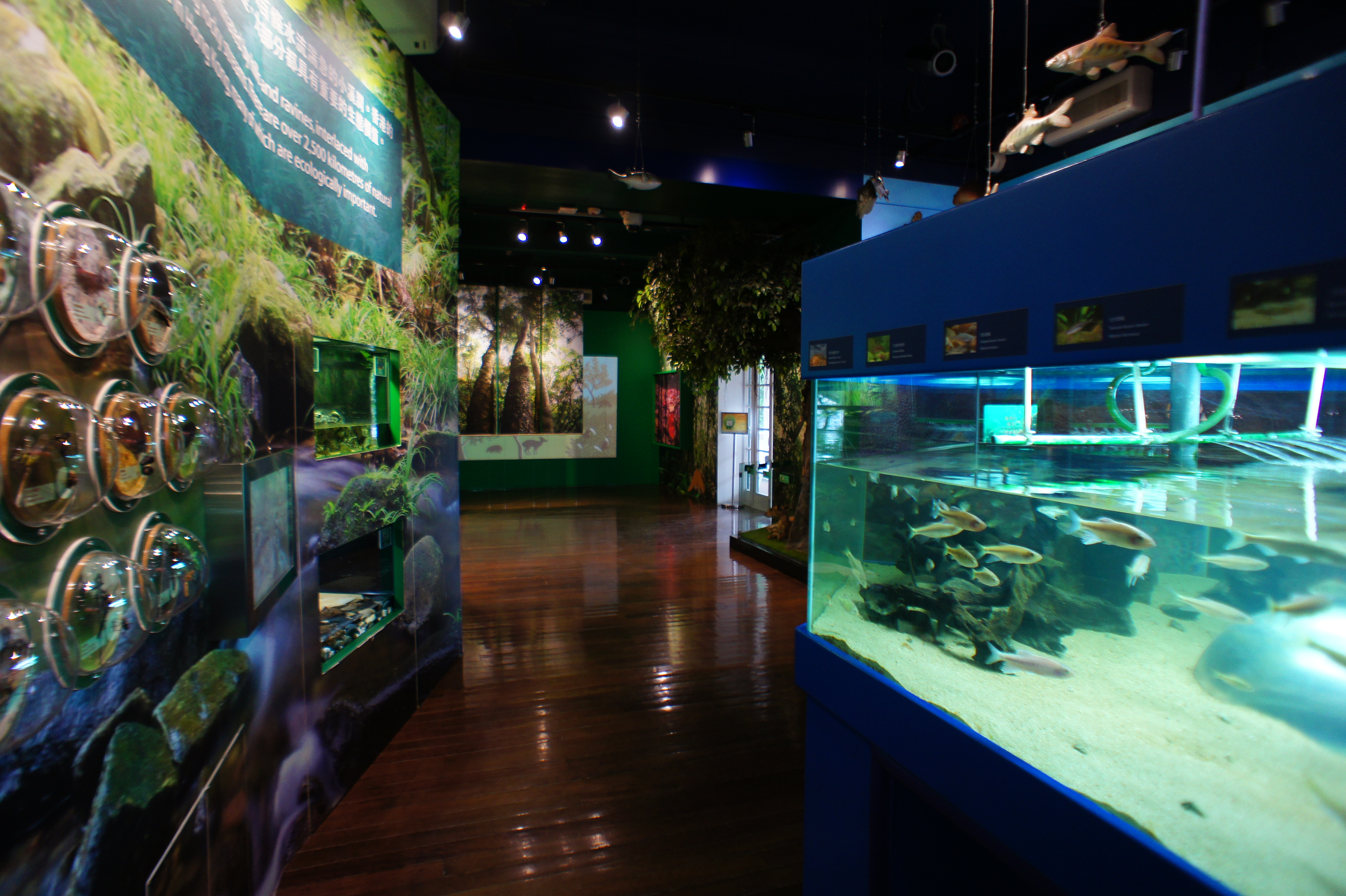 The exhibition gallery on the ground floor of the Woodside Biodiversity Education Centre, 50 Mount Parker Road, Quarry Bay, Hong Kong.